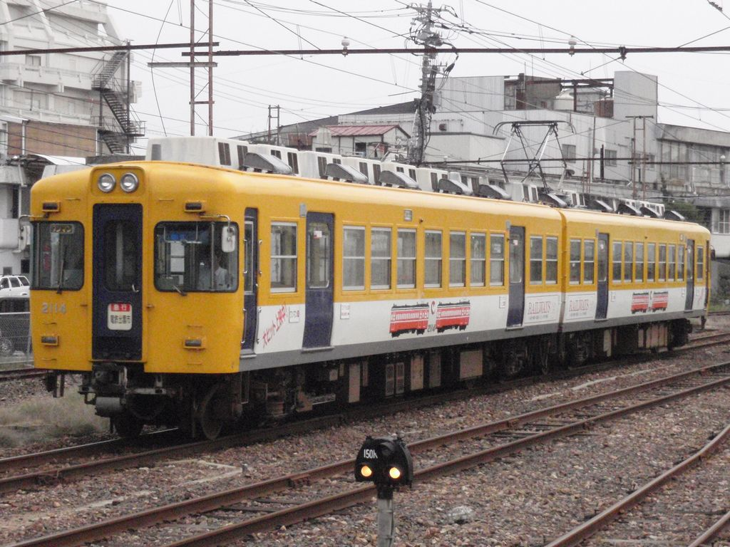 EMU Type 2100 No.2014 and 2114 by Ichibata Electric Railway(BATADEN).